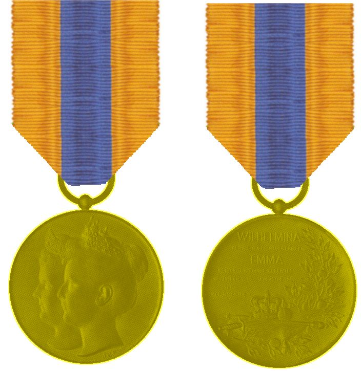 Coronation Medal 1898 Netherlands